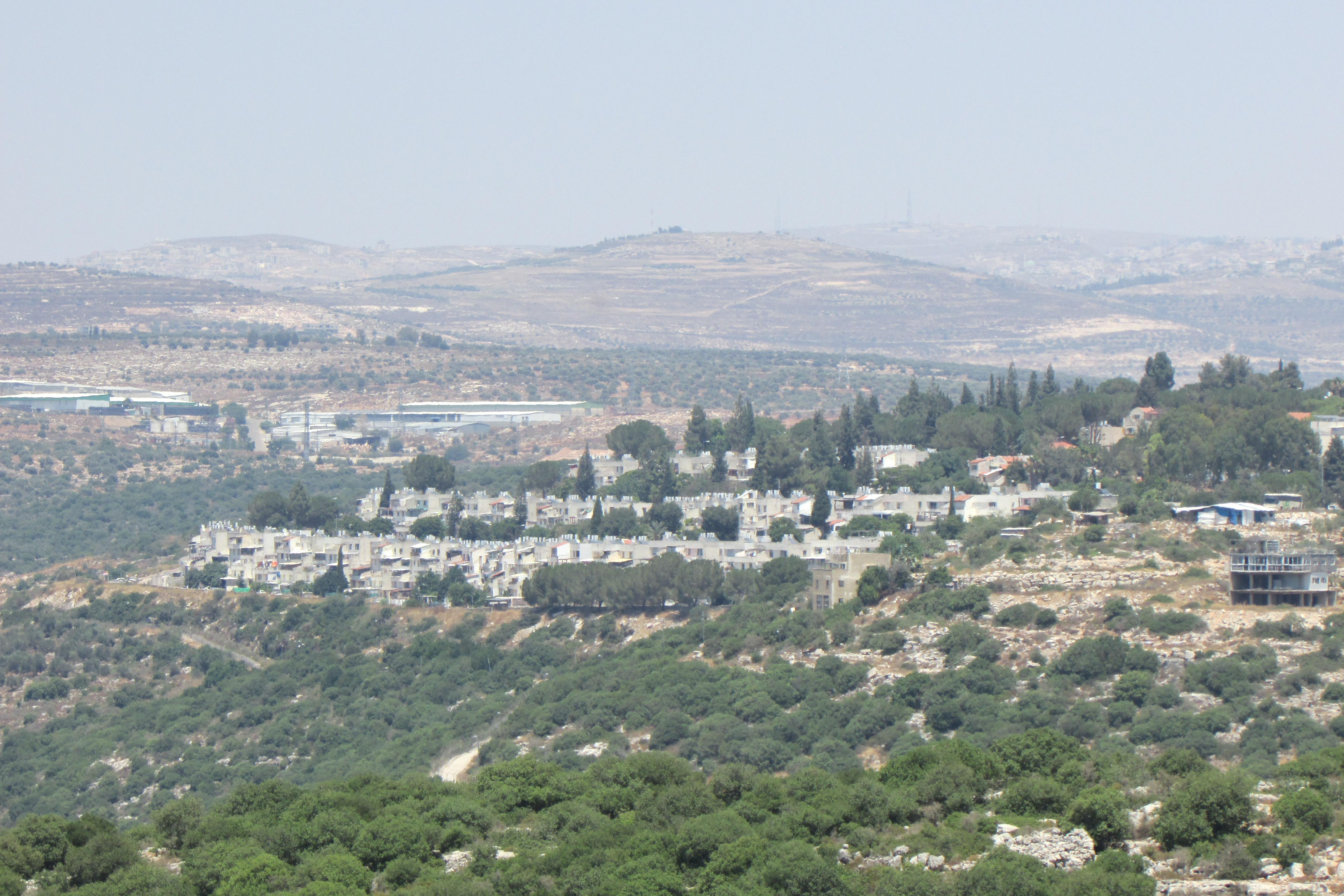 Immanuel from Yakir